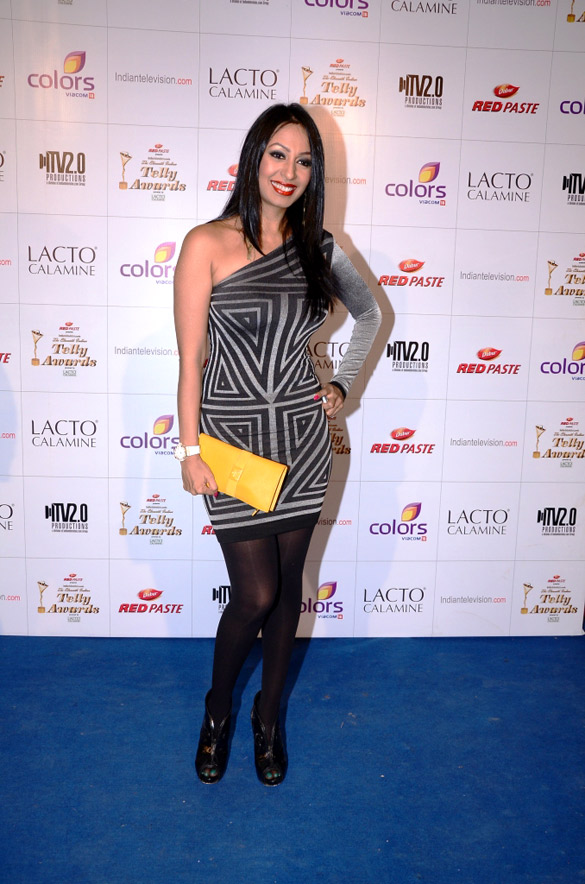 colors indian telly awards